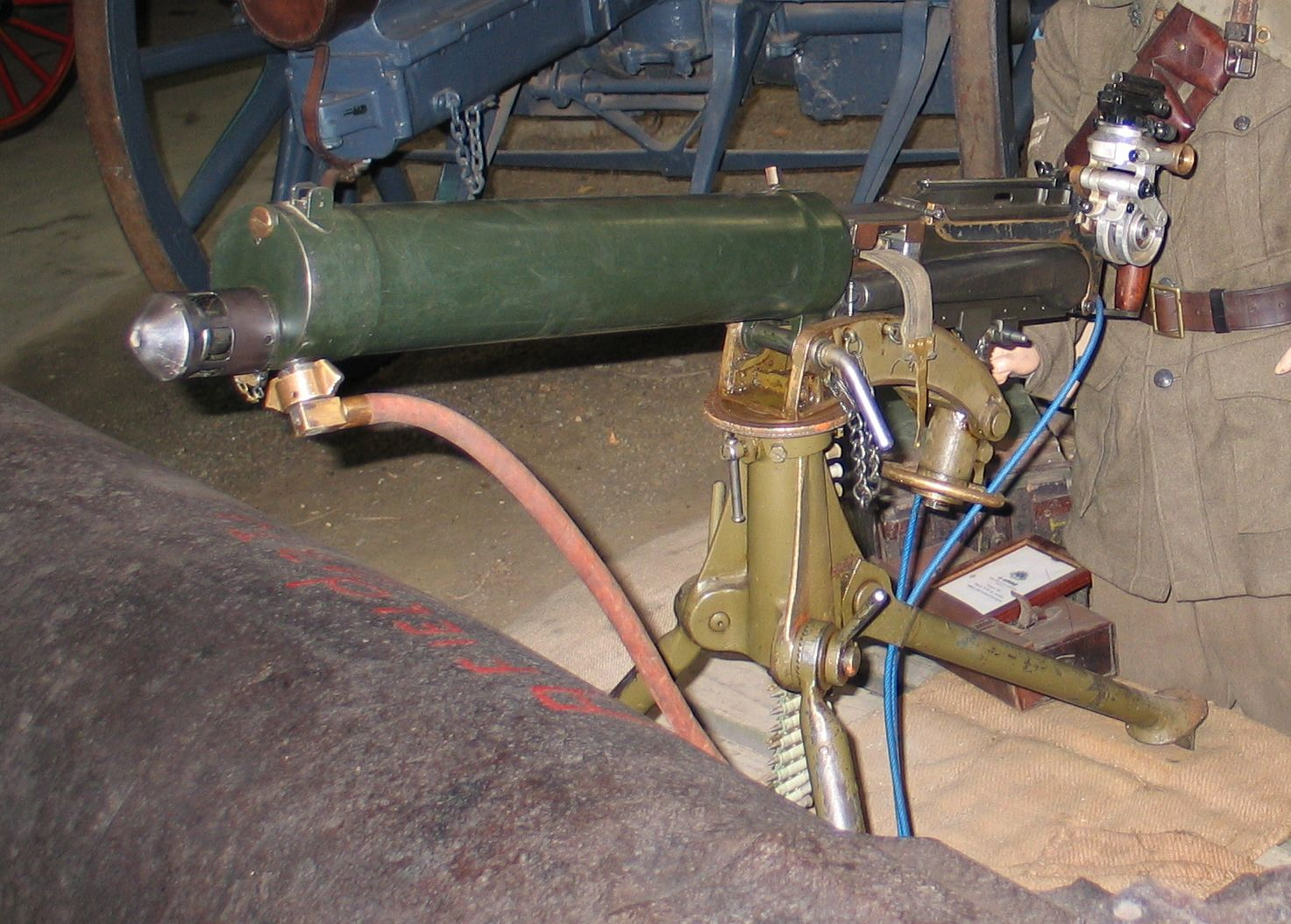 Vickers machine gun in Light Horse and Field Artillery Museum, Nar Nar Goon, Victoria, Australia.